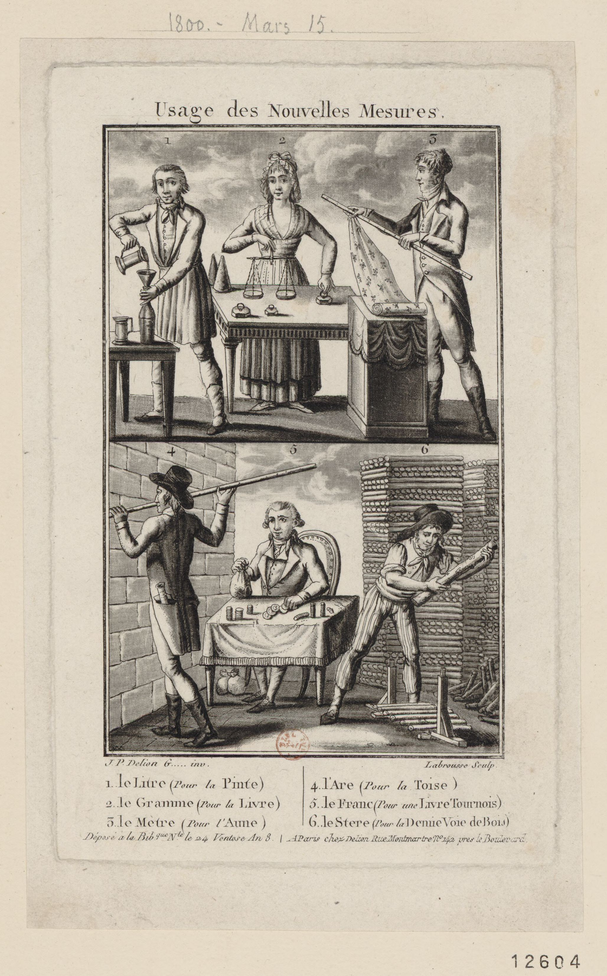 Woodcut dated 1800 illustrating the new decimal units which became the legal norm in France on 4 November 1800, five years after the metric system was first introduced. In the captions, each one of these six new units is followed by the old French unit in brackets: the litre, the gram, the metre, the are (100 square metres), the franc, and the stère (1 cubic metre of wood).